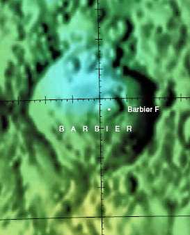 Color-coded LAC 103 from USGS Digital Atlas.